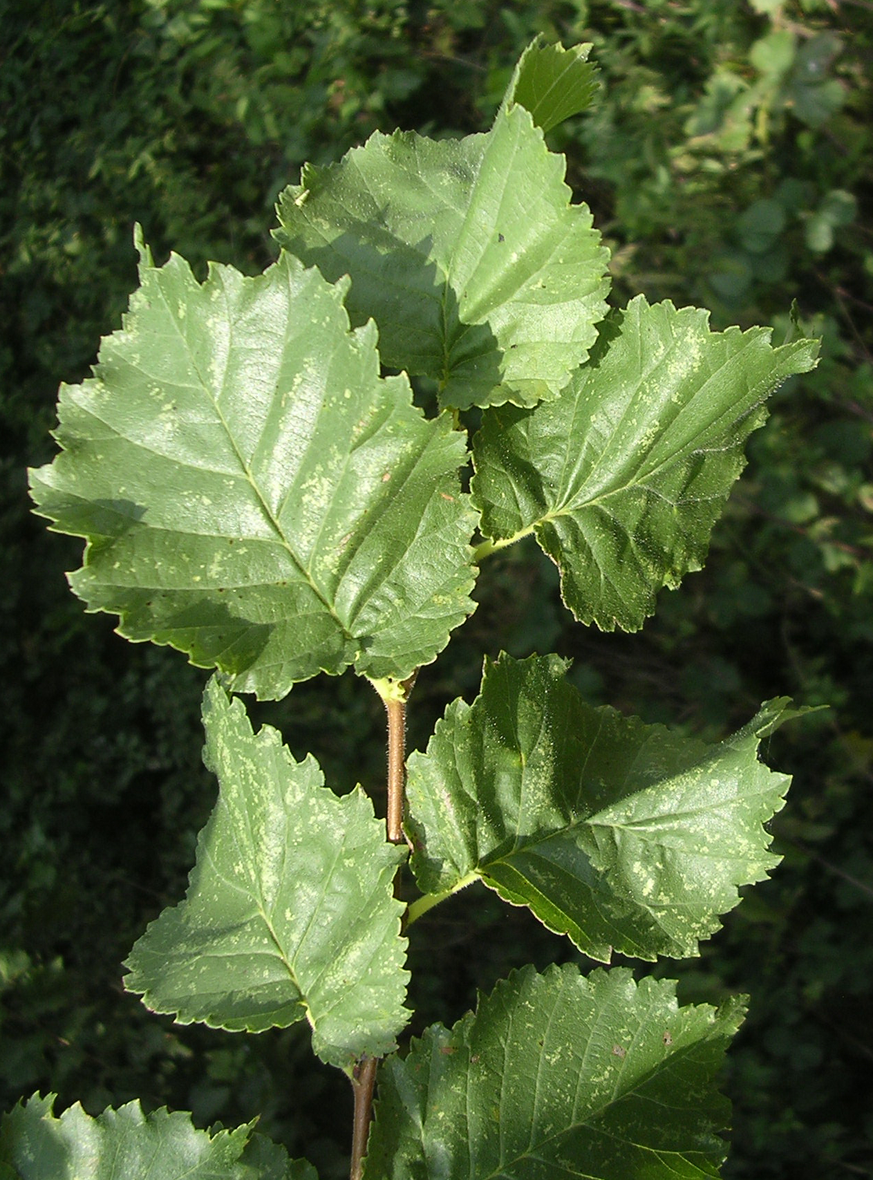 Photo taken by author, August 2006